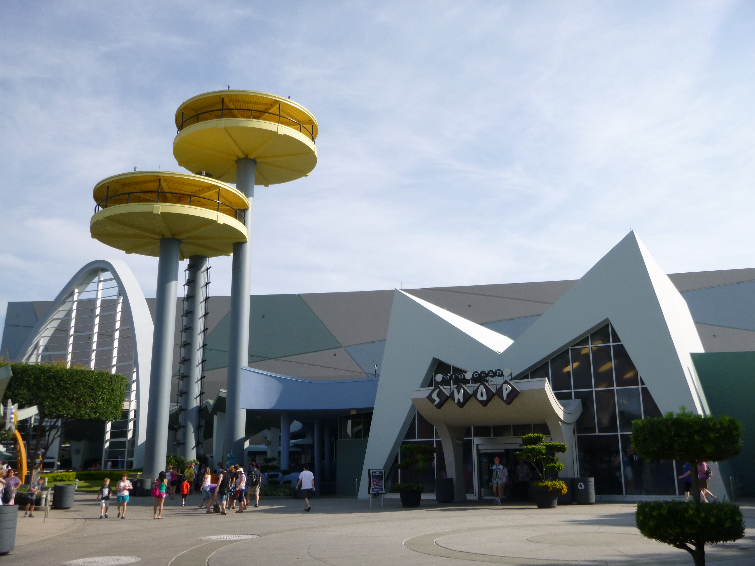 Men in Black: Alien Attack building with the 1964 New York State Pavilion's Observation Towers (inspiration)